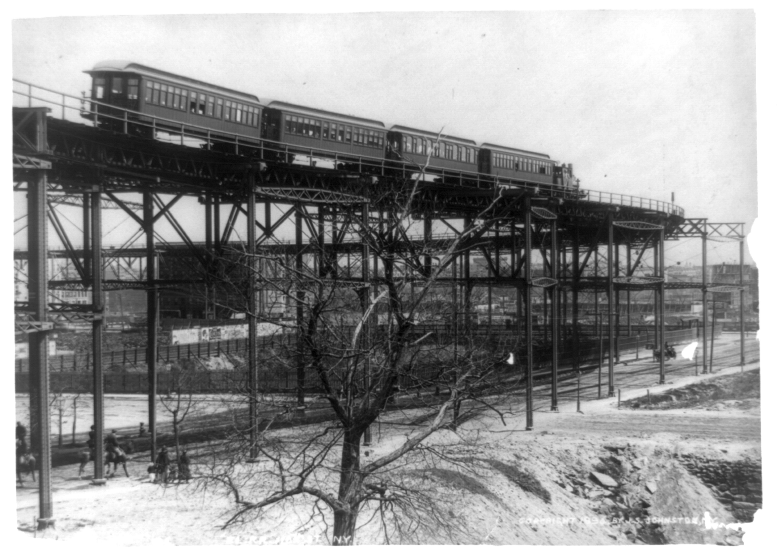 Elevated railroad in New York City, so called “suicide curve” above 110th St., 1896.